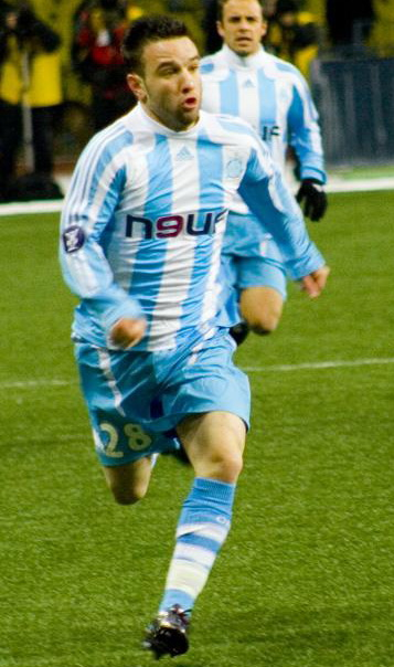 Mathieu Valbuena